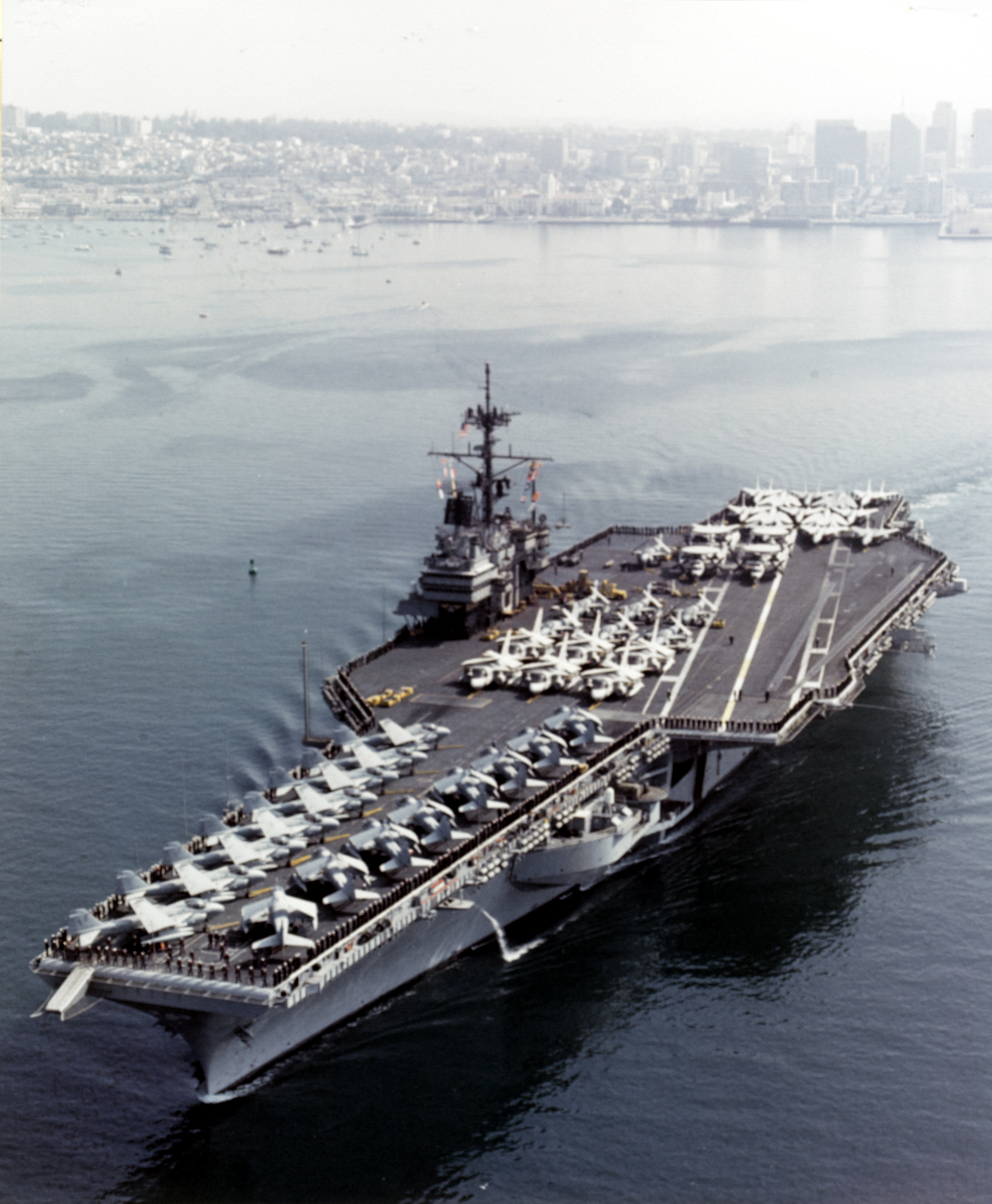 The U.S. Navy aircraft carrier USS Ranger (CV-61) departing San Diego, California (USA), in February 1987.